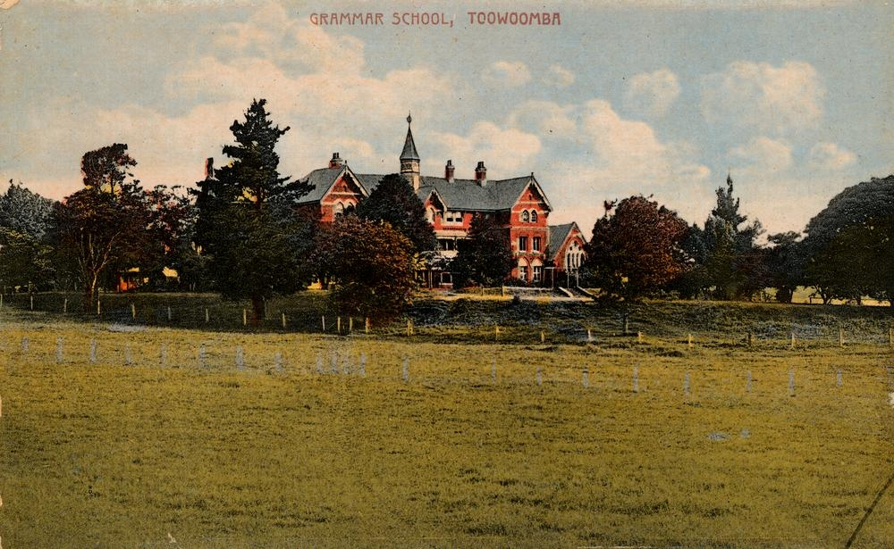 Photographer: Unidentified Location: Toowoomba, Queensland, Australia Date: Undated View this image at the State Library of Queensland: Information about State Library of Queensland’s collection